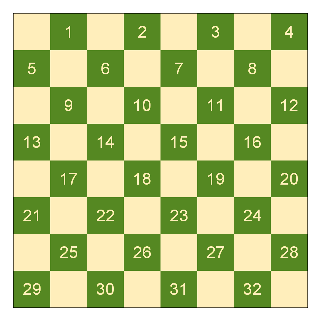 English (and several other 8x8) draughts notation. Created in MSPAINT.